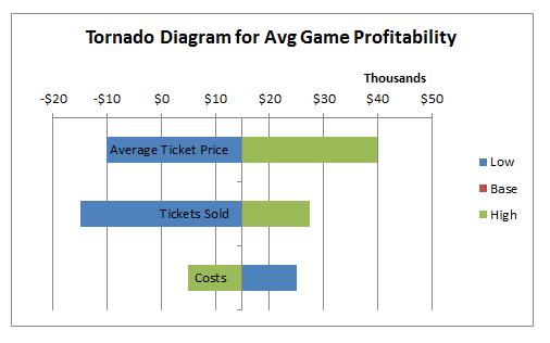 Tornado Step 4.1h